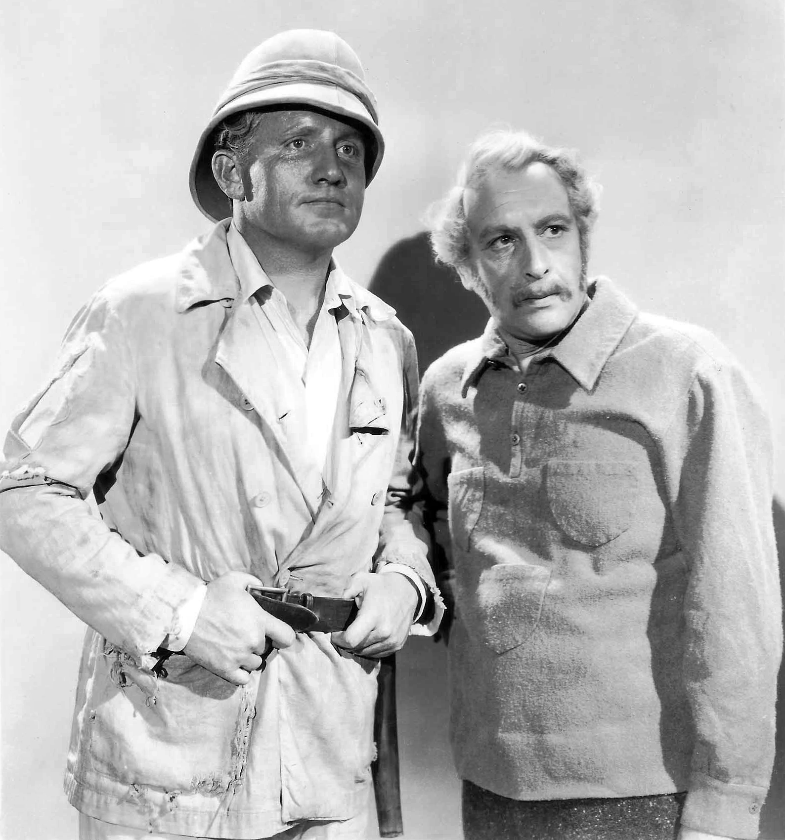 Promotional photograph for Stanley and Livingstone, a 1939 film starring Spencer Tracy and Cedric Hardwicke